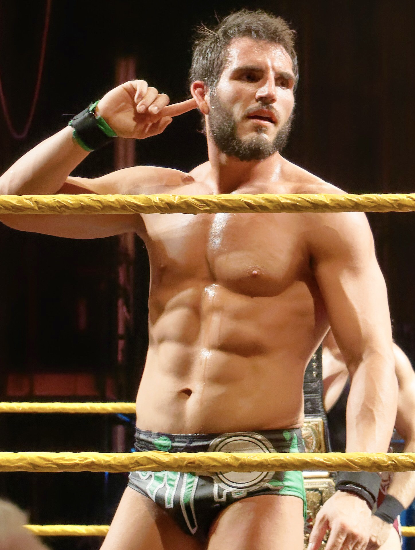 WWE Live 2018 - Antwerpen (NxT) - Aleister Black&Johnny Gargano&Pete Dunne Vs Lars Sullivan&The Velveteen Dream&Tommaso CiampaAleister Black&Johnny Gargano&Pete Dunne def. (Pin) Lars Sullivan&The Velveteen Dream&Tommaso CiampaType of match : 6-person tag( Bonne nouvelle pour les inconditionnels du catch en Belgique : le mardi 12 juin 2018, les superstars de NXT donneront le meilleur d'eux-memes au Stadsschouwburg Antwerpen, lors d'un show exclusif au Benelux.WWE NXT est une emission televisee creee en 2010, durant laquelle de jeunes catcheurs sont formes par des veterans comme Chris Jericho et C.M. Punk. Tous partagent le meme reve : devenir la nouvelle star du catch. Le programme WWE NXT a tres vite rencontre un enorme succes. Aujourd'hui, WWE NXT est connu comme une veritable machine a talents. Pensez par exemple a Seth Rollins, qui etait encore chez nous pas plus tard que l'annee derniere pour WWE Live.Cette annee encore, vous aurez la chance de voir a l'oeuvre de nombreux nouveaux talents du catch ! A l'affiche, on trouve notamment Aleister Black, Adam Cole, Undisputed Era, Velveteen Dream, Ricochet, Nikki Cross, Shayna Baszler et Kairi Sane. Le line-up reste sujet a des changements de derniere minute.Attendez-vous a un show sensationnel et plein de tension ! )